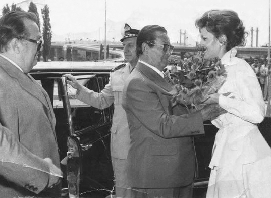 Josip Broz Tito meeting with young and happy woman in Yugoslavia.